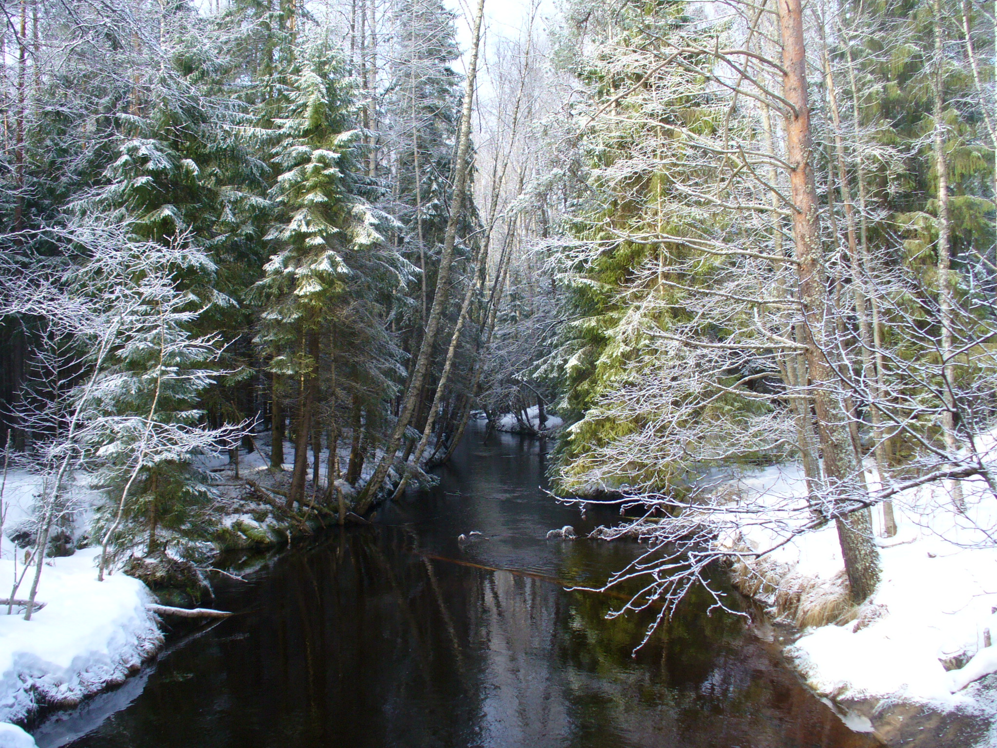 Perovka river, Leningrad oblast